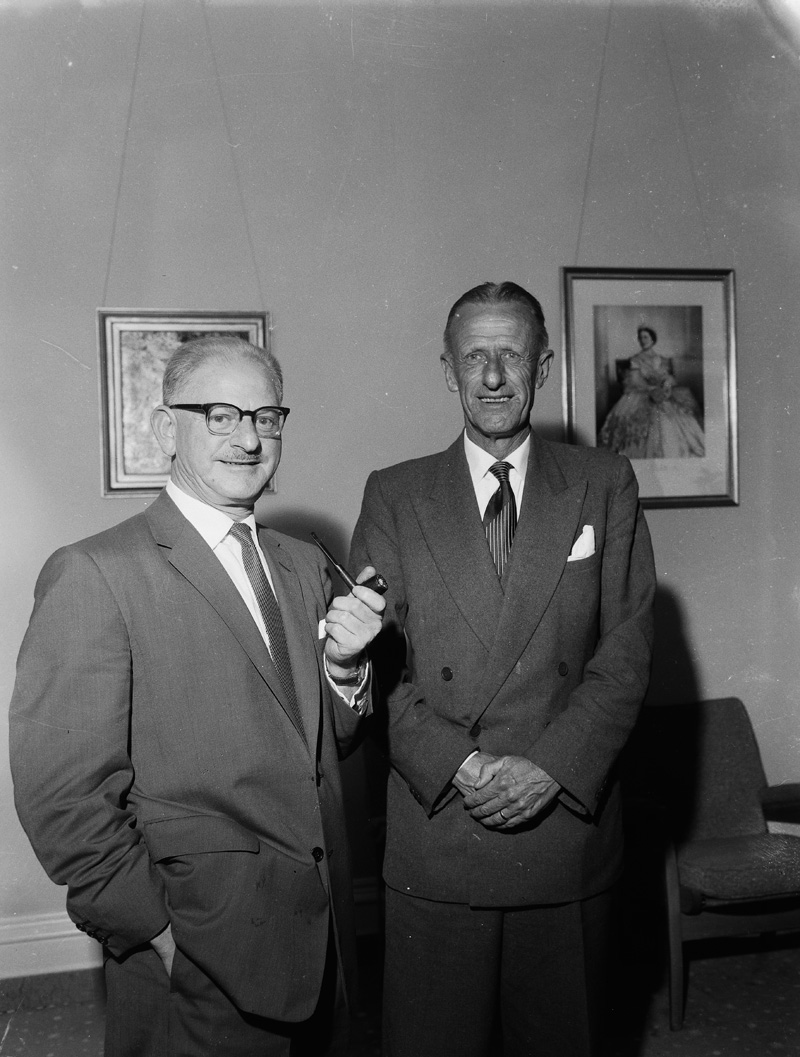 Dove-Myer Robinson and Keith Buttle.